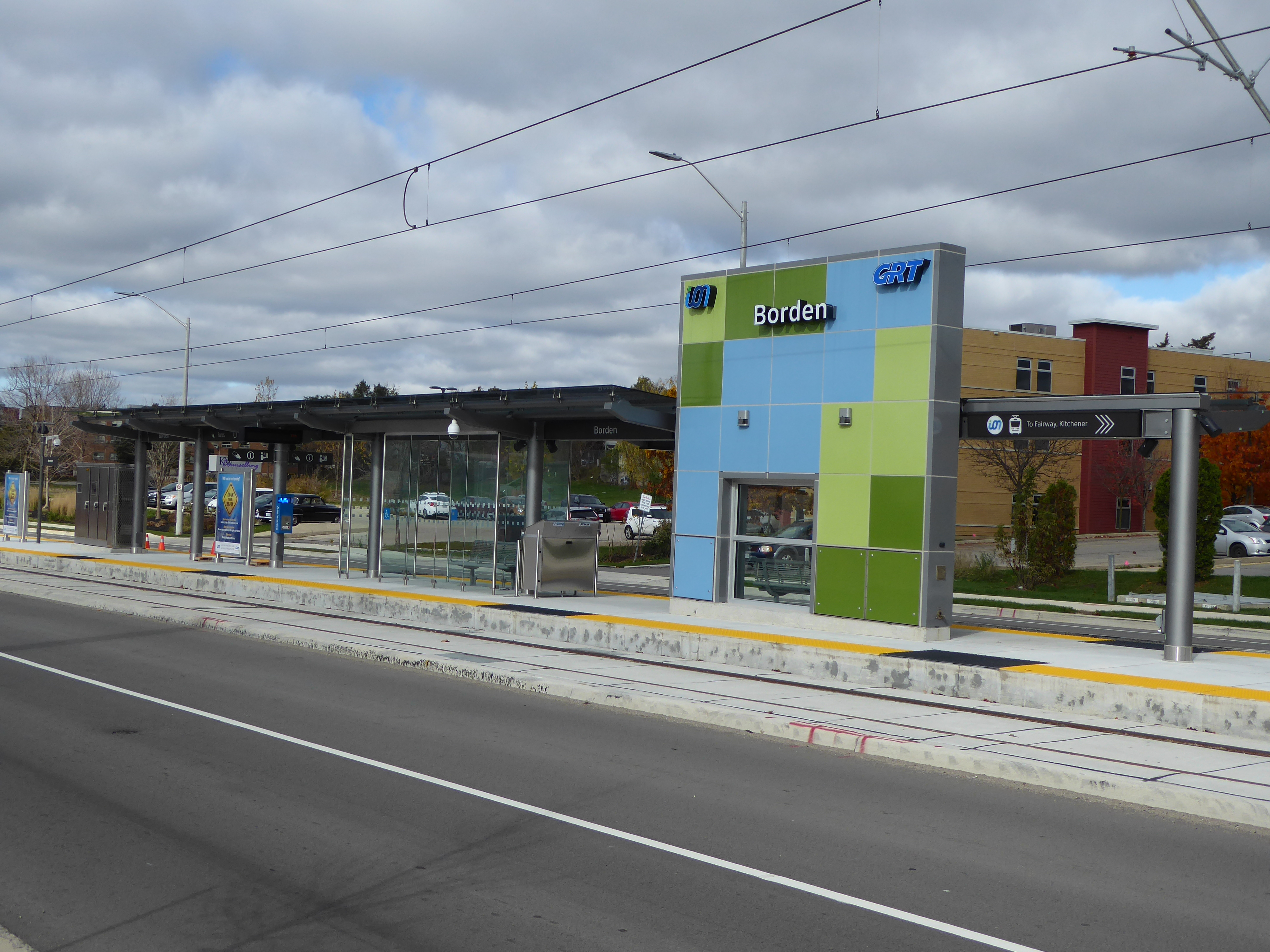 Borden Station of the Ion rapid transit system, photographed structurally complete November 2017